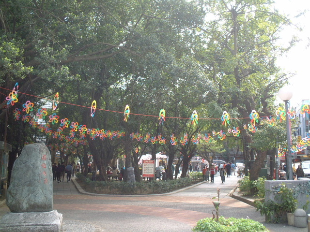 Picture taken by puresusan on Feb. 5th, 2006. Yon Kong Street Park in Taipei City.